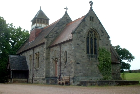 St Wystan's parish church, Bretby, Derbyshire, seen from the east